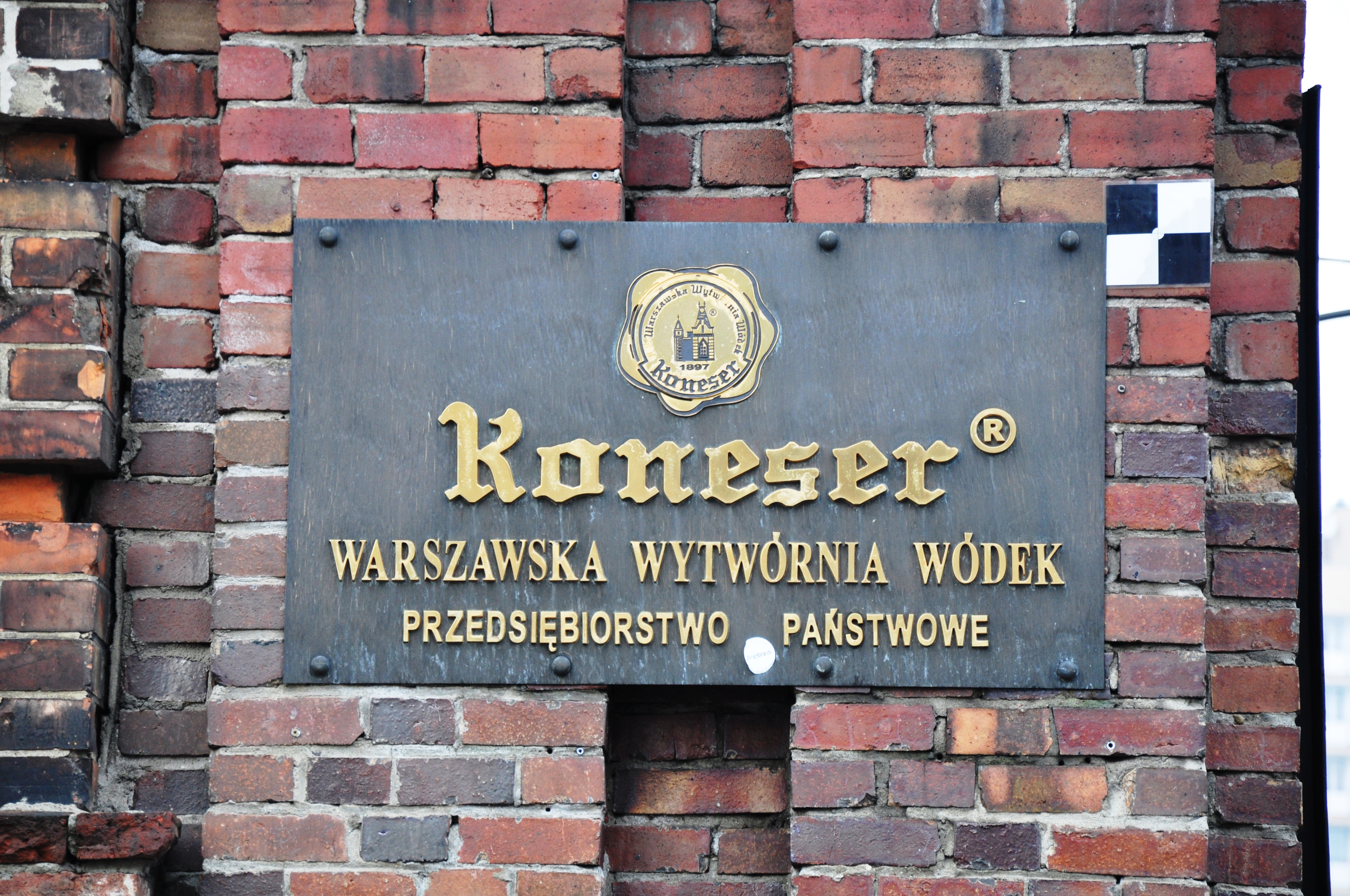 Koneser Vodka Factory